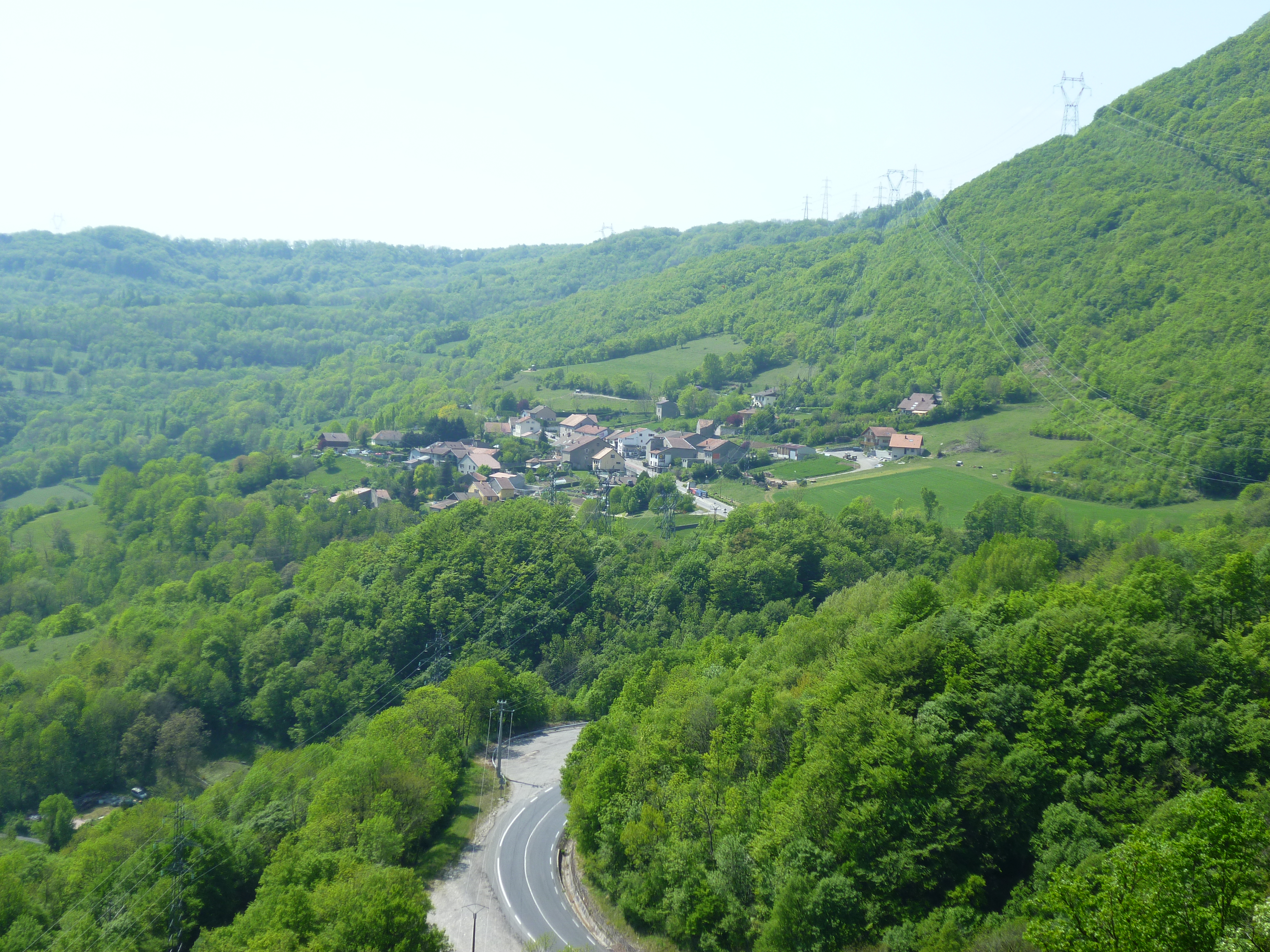 The hamlet of Longeray (near Léaz) seen from the via ferrata.